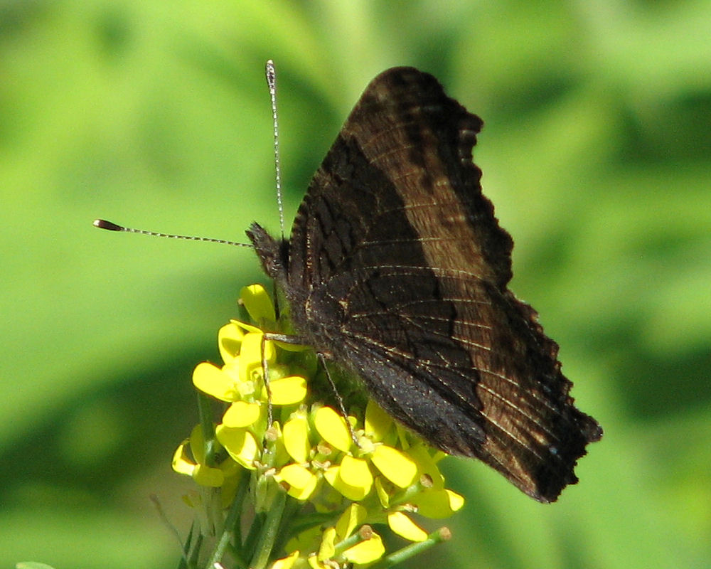 Milbert's Tortoiseshell (Aglais milberti), Ottawa, Ontario, Canada